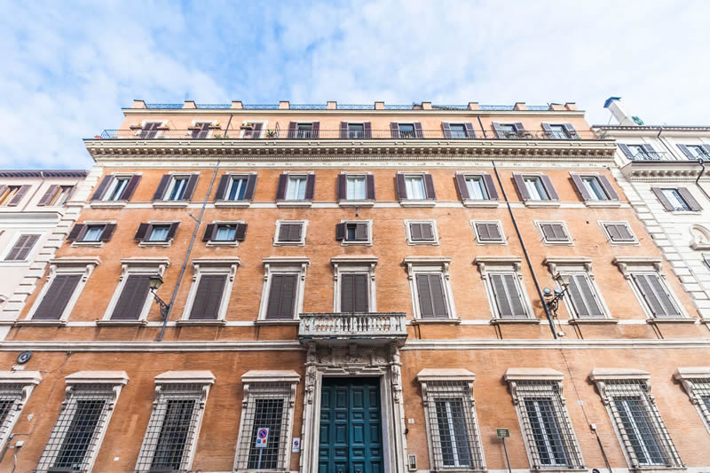 Palazzo Albertoni Spinola Facade